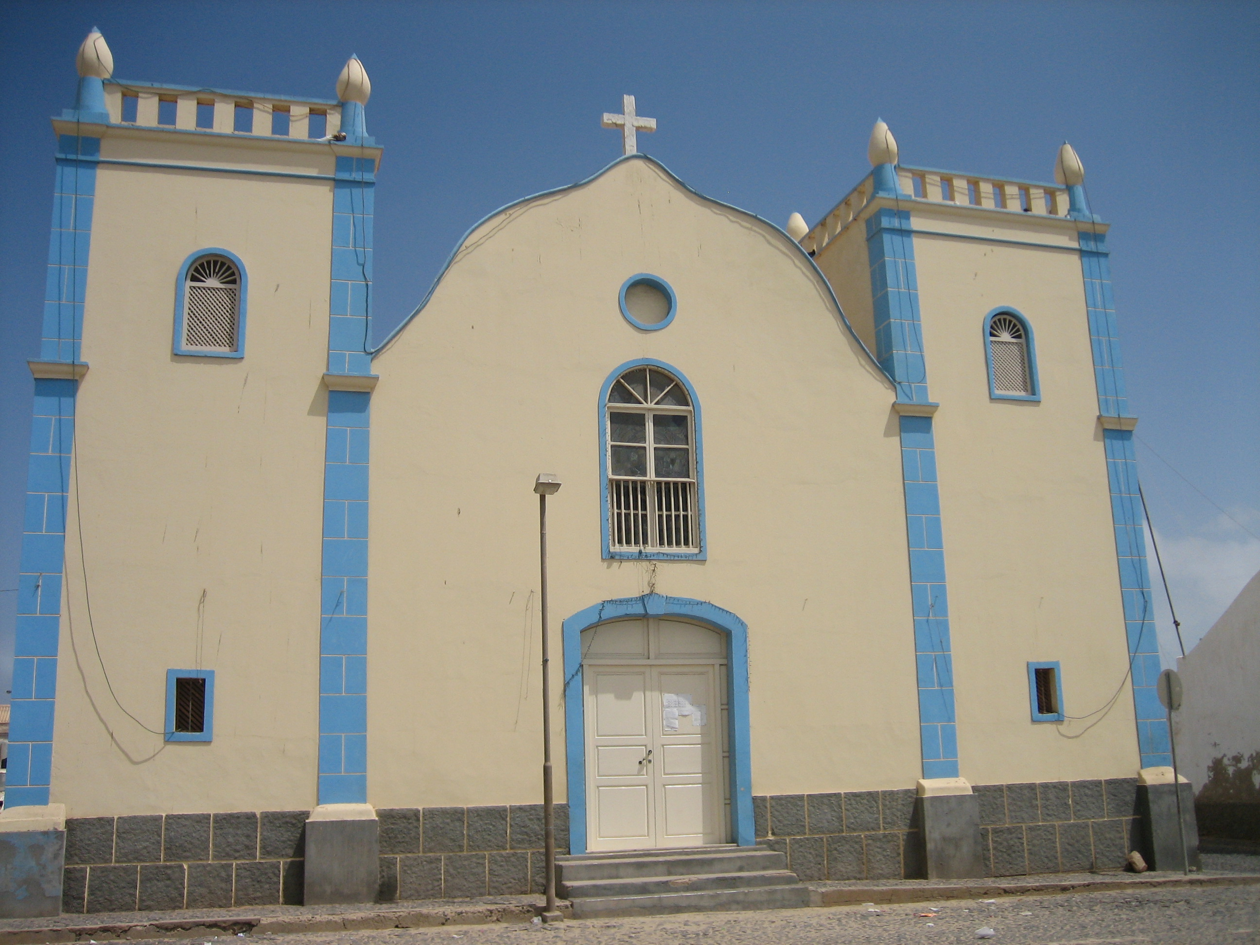 The Igreja de Santa Isabel in the town of Sal Rei on Boa Vista island, Cape Verde